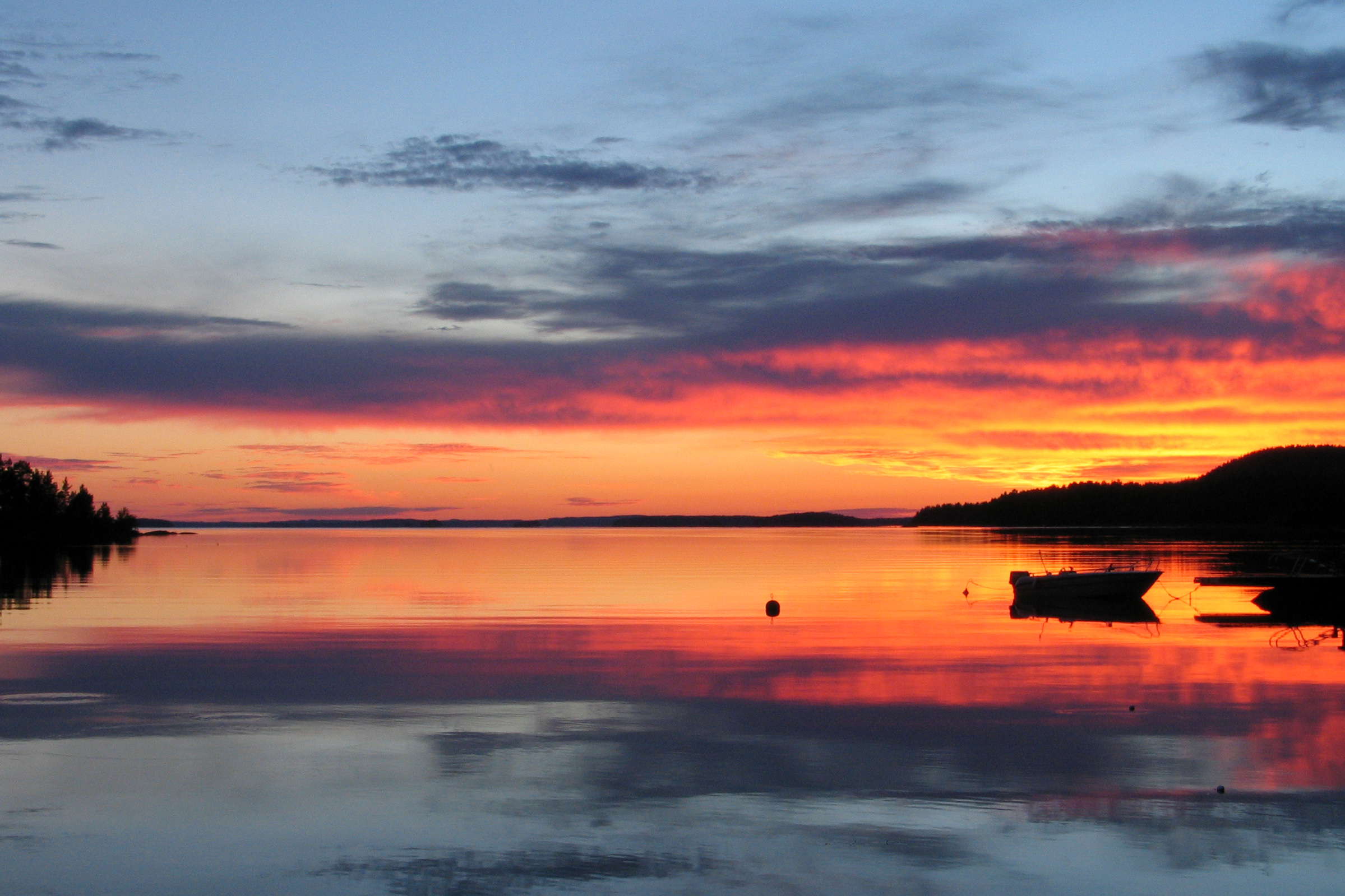 Sun setting over Lake Päijänne at Sysmä, Finland. On the right is Päijätsalo island which is part of the Päijätsalo natural park.